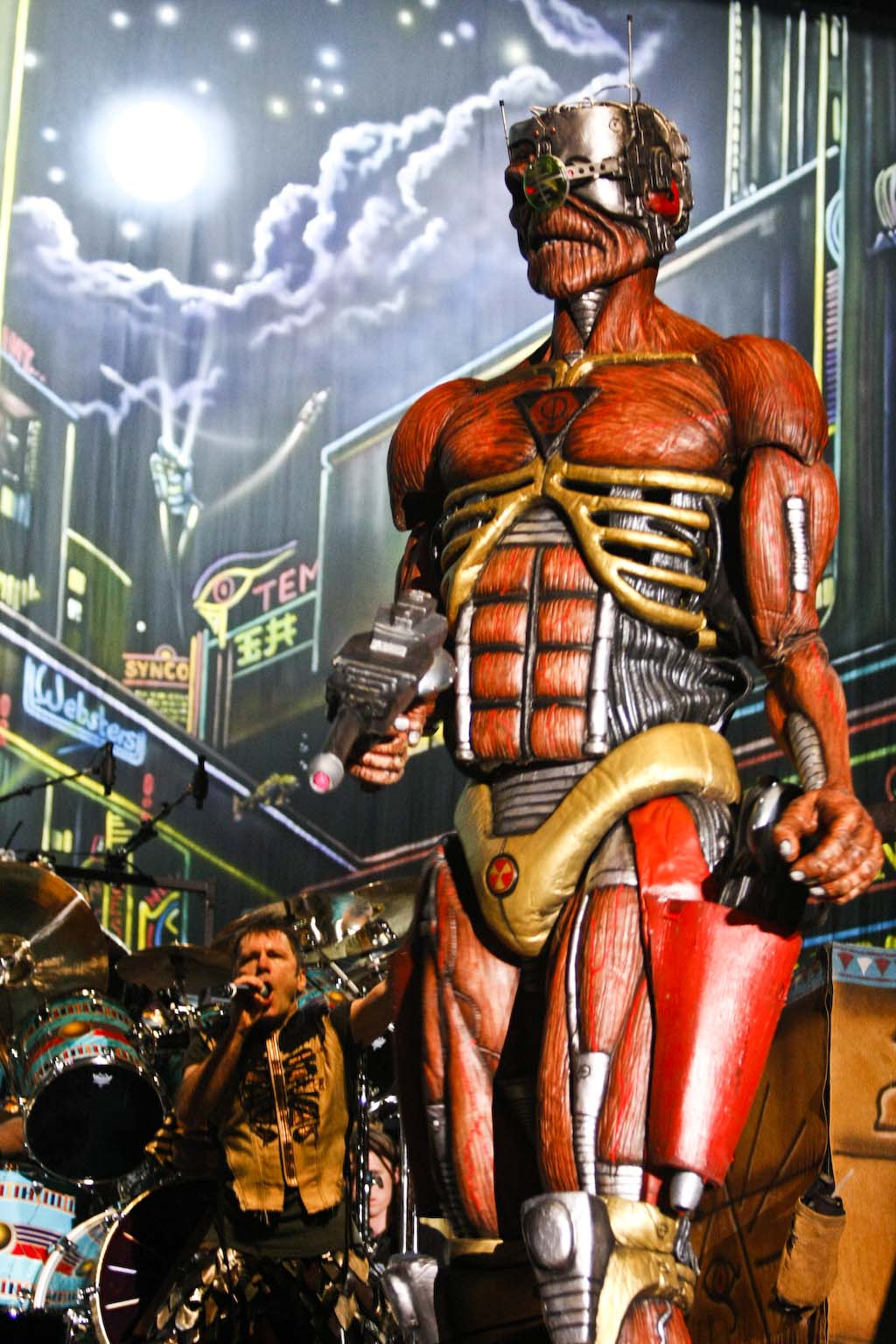 Eddie the Head